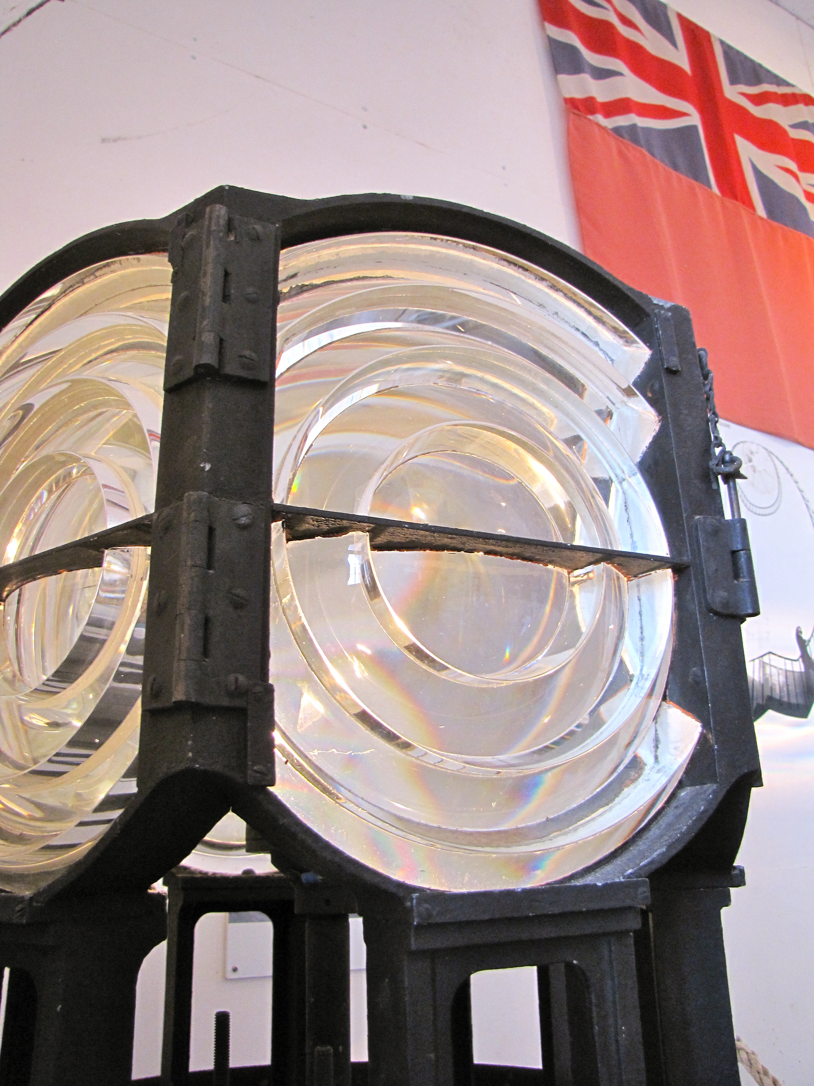 Pre-1983 optic from the Nab Tower; one of a pair, now on display inside Hurst Castle.